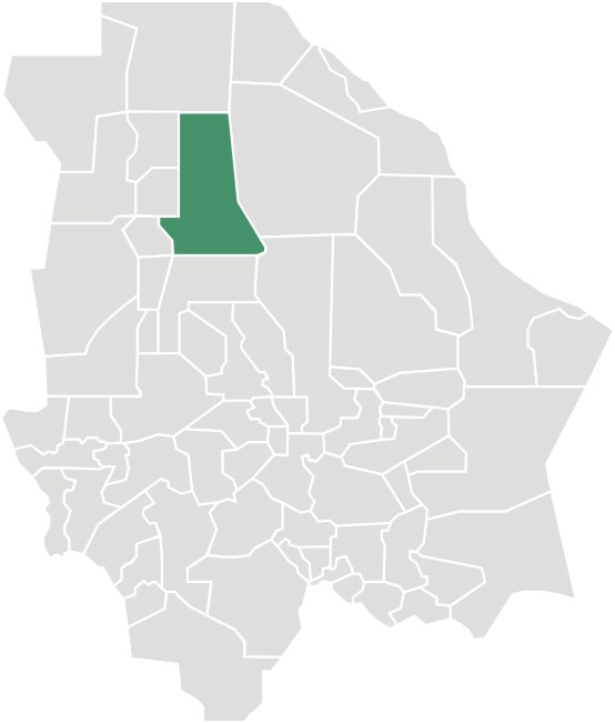 Map of the Municipalty of Buenaventura in the State of Chihuahua, México.